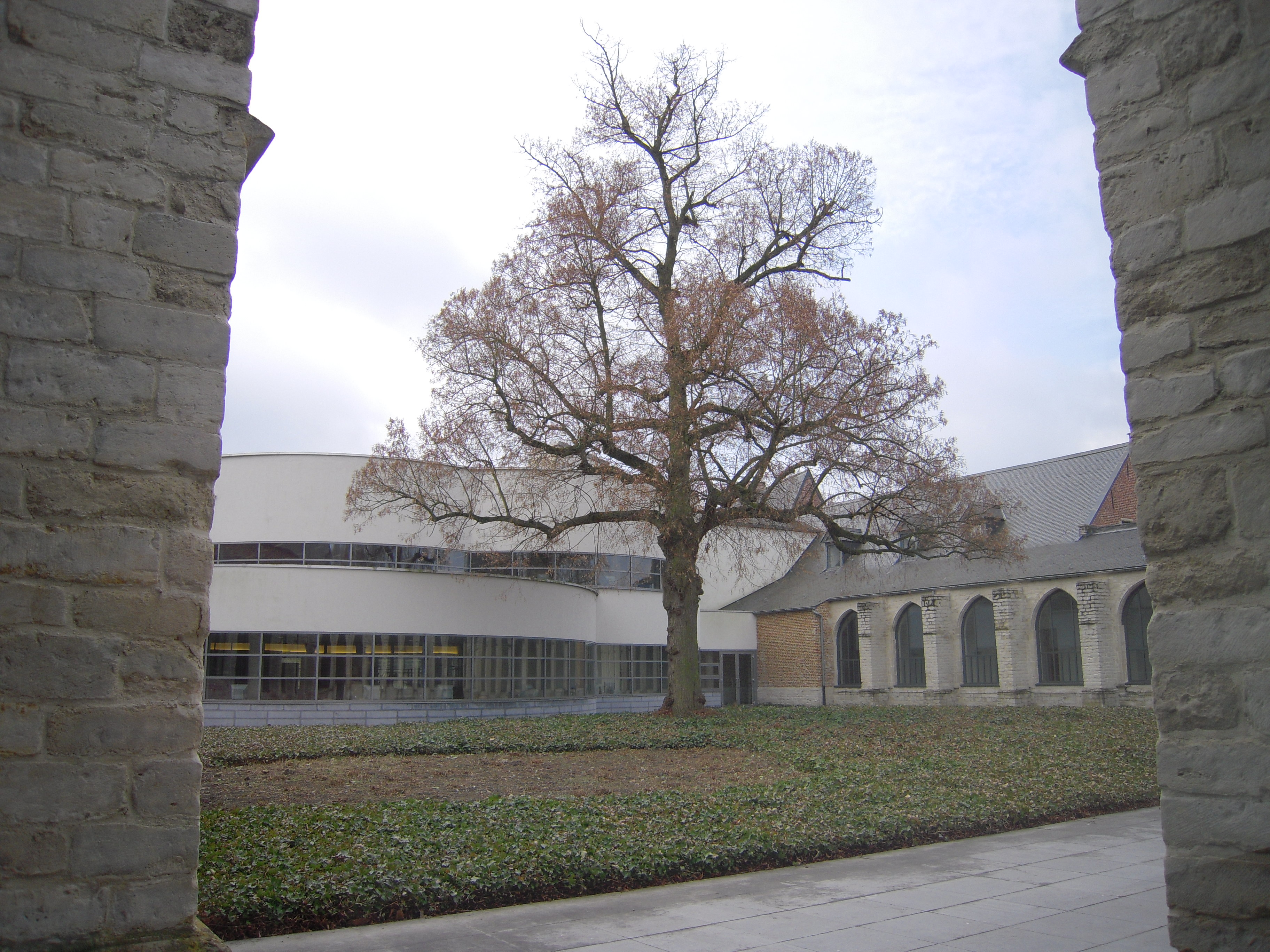 Arenberg Library KU Leuven, Heverlee, Belgium